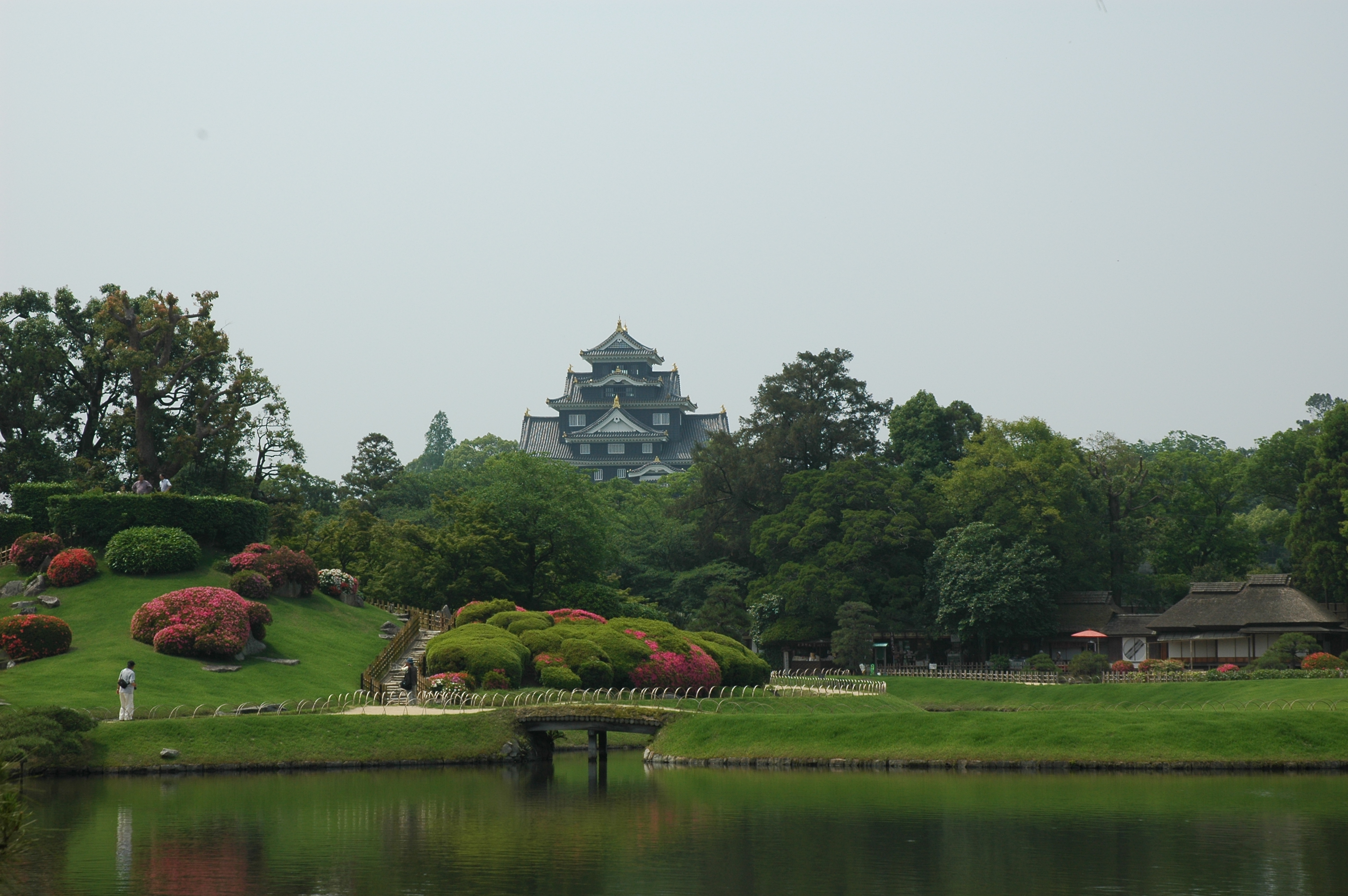 view of Sawanoike,Yuishinzan and the Keep of Okayama castle in early summer with wisteria plants